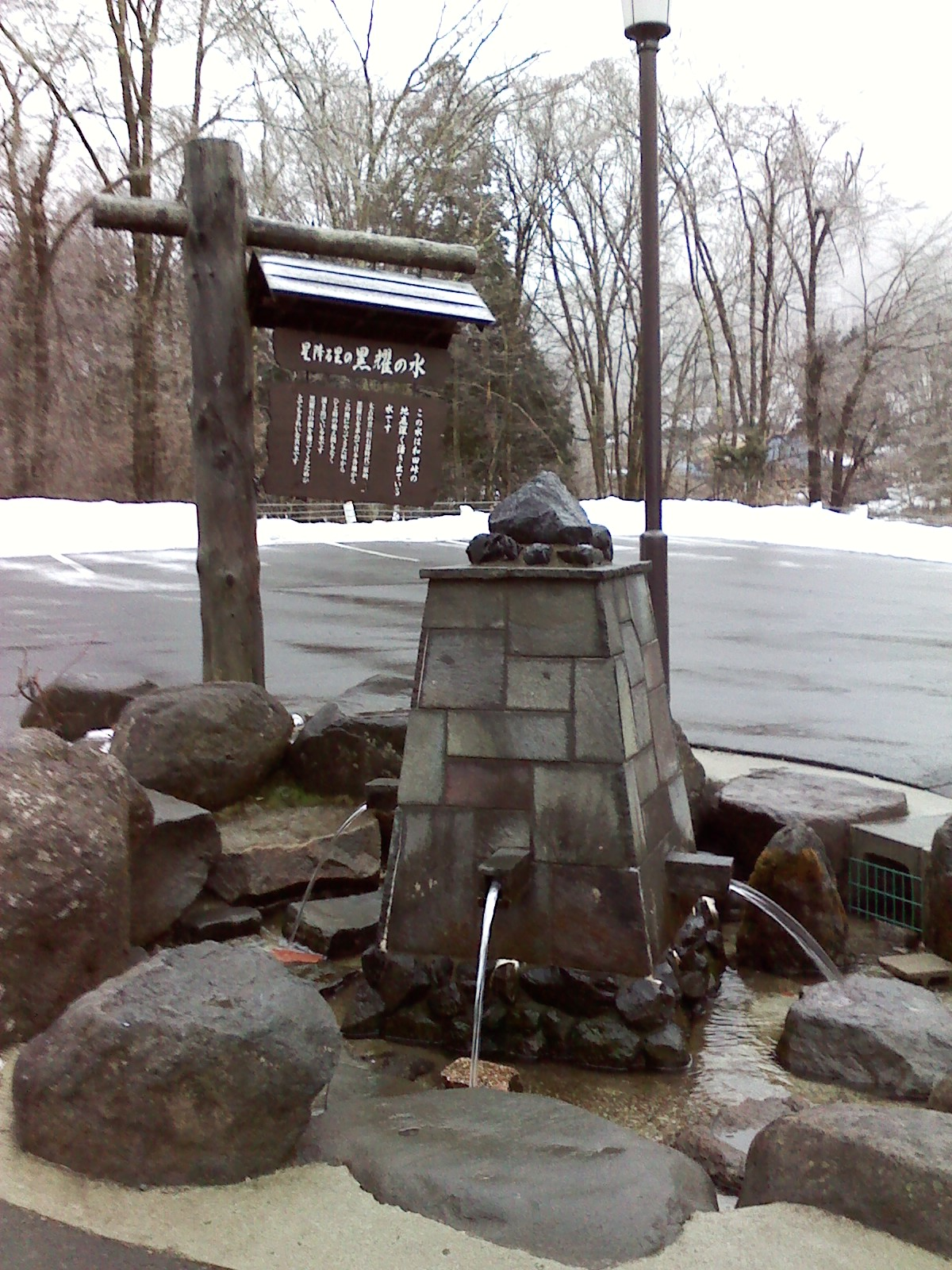 The picture of a famous fountain located at Omegura, Nagawa-machi, Nagano, Japan.